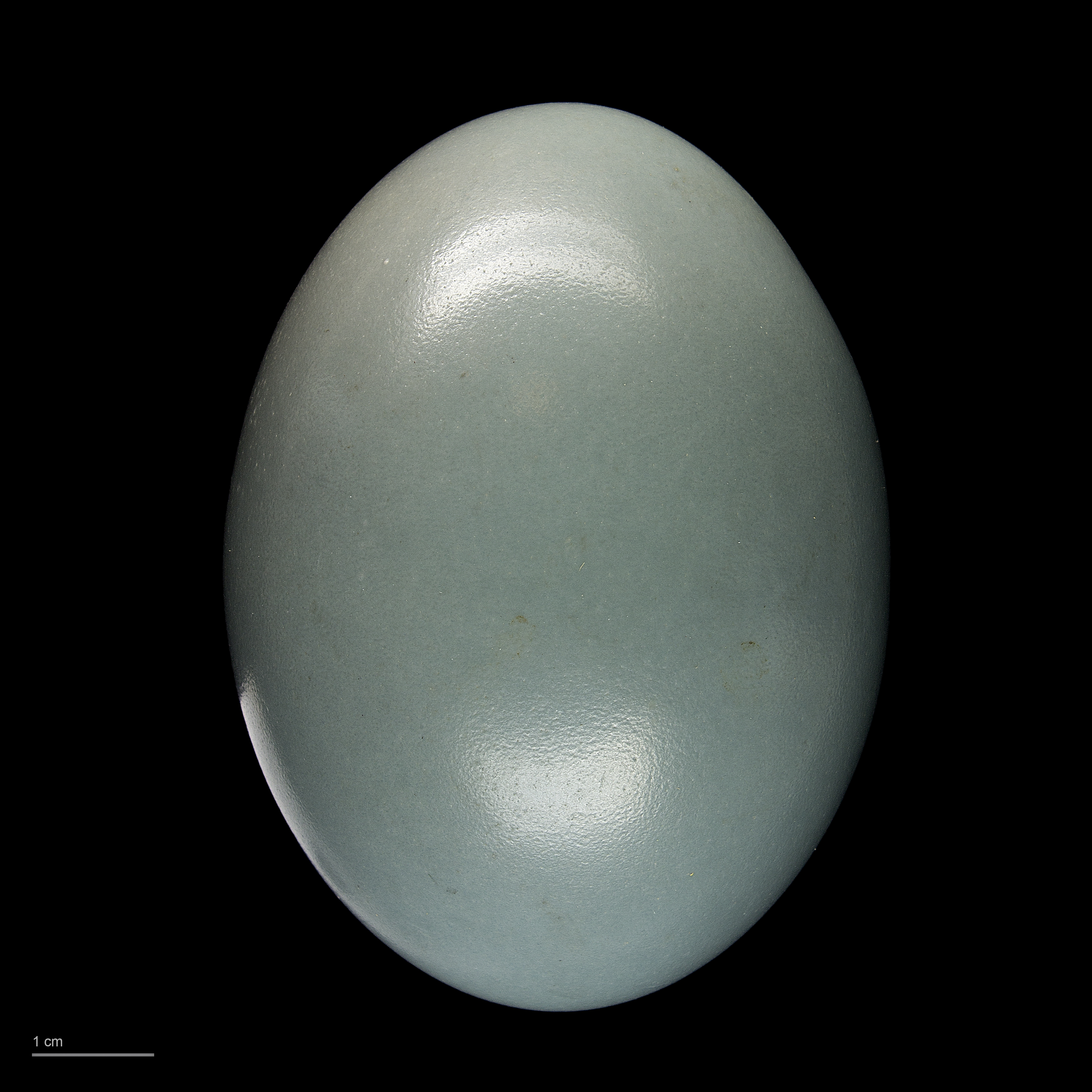 Egg of great tinamou Collection of Jacques Perrin de Brichambaut.